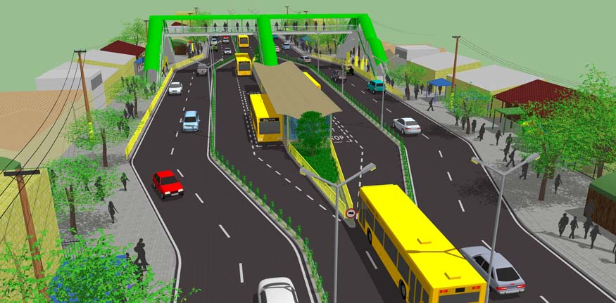 Example insertion of BRT running lane into middle of road with a median station, including overtaking lane for express services.